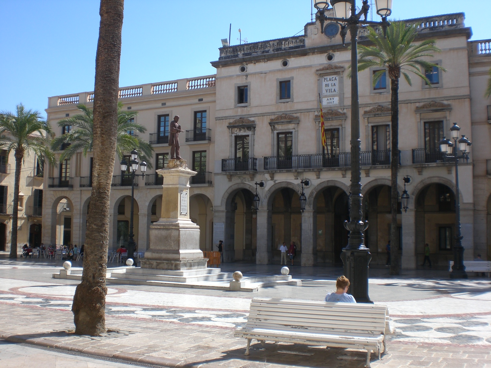 Plaça de la Vila (Village Square) in Vilanova i la Geltrú, Spain.